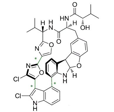 Multyicyclic Biaryls